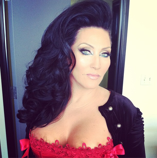 Michelle Visage backstage at RuPaul's Drag Race